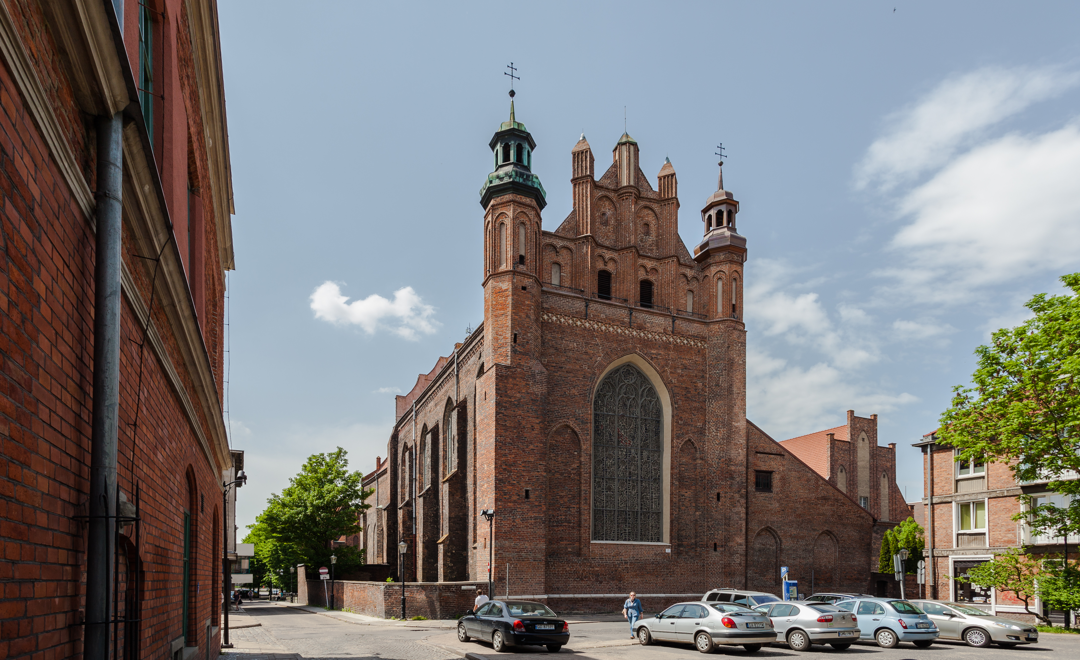 St. Joseph church, Gdansk, Poland